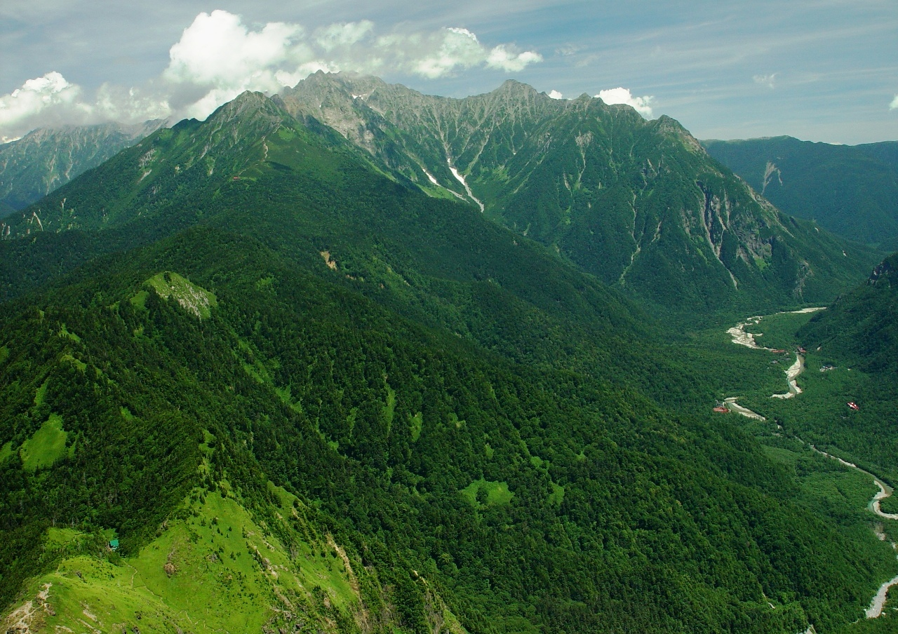 Mount Hotaka from Mount Yake